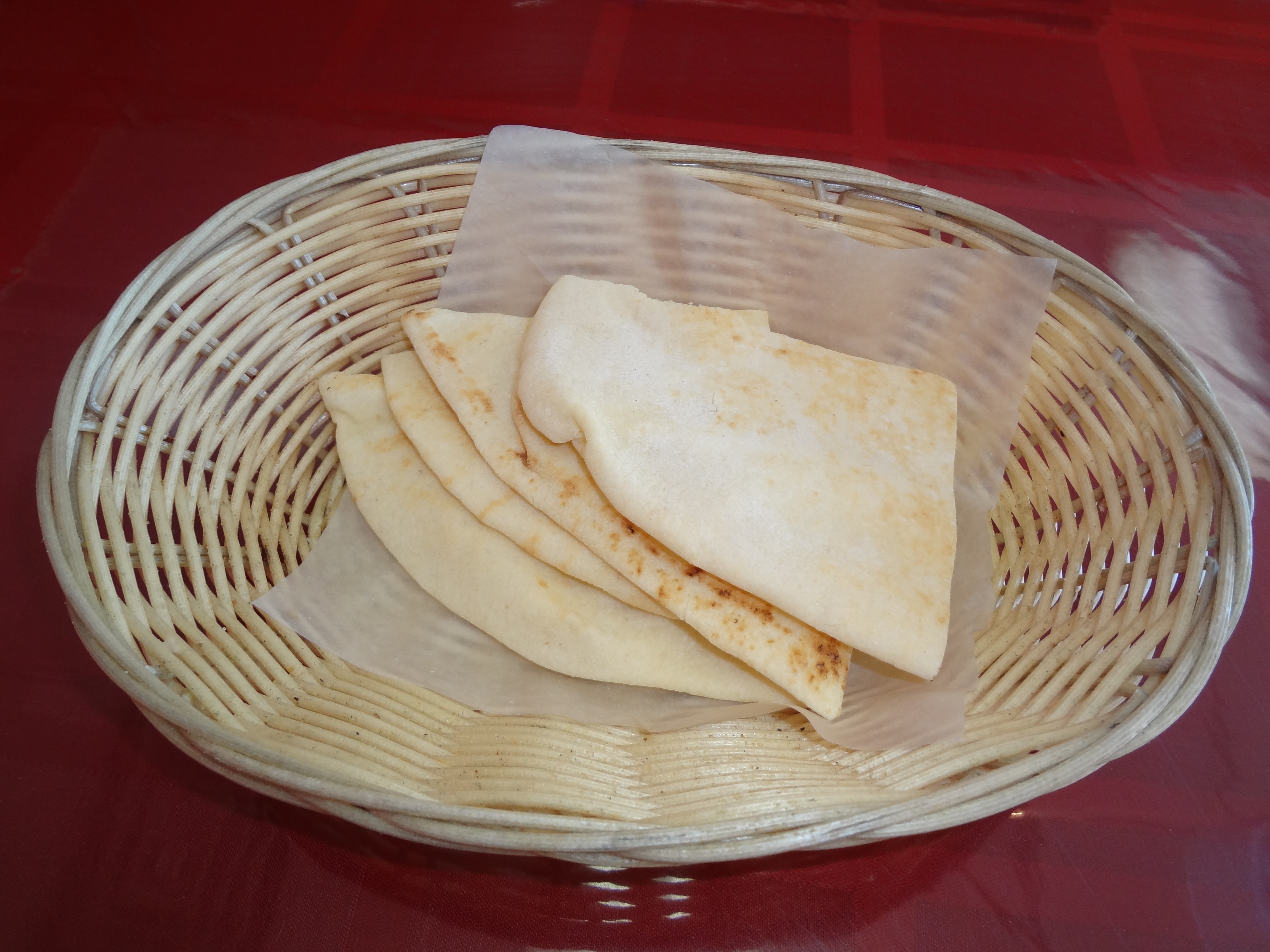 Pita Bread